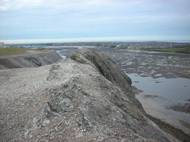 The Slag Bank Looking south-west across the Channel and over the built-up part of Walney. The Walney wind-farm is in the distance, and when the picture is enlarged Yr Wyddfa (Snowdon) can be made out on the far horizon, in the centre of the picture. Note: The wind farm mentioned in this description is probably the Barrow Offshore Wind Farm, rather than the Walney Wind Farm (for which construction began in 2010).